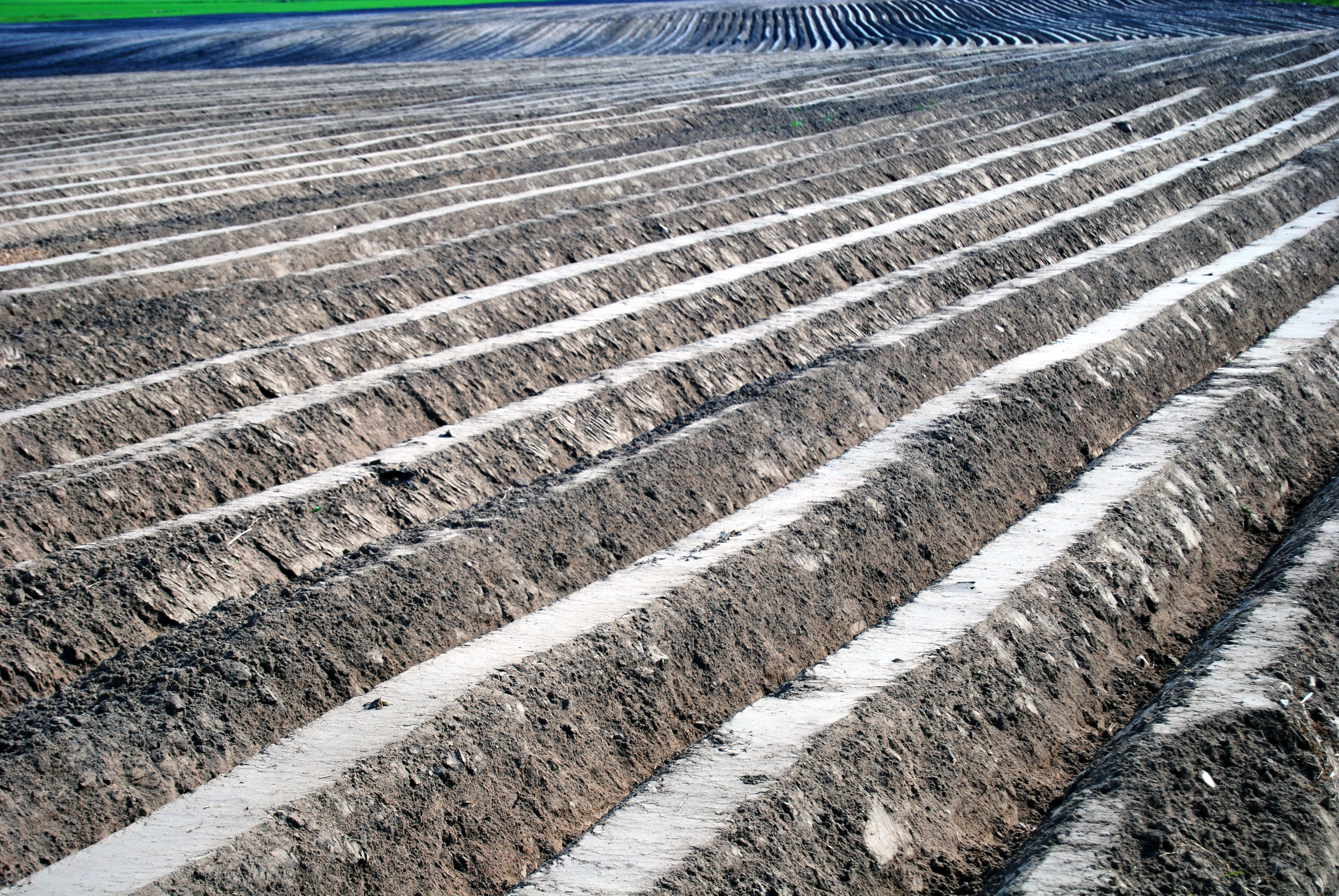 Redliny